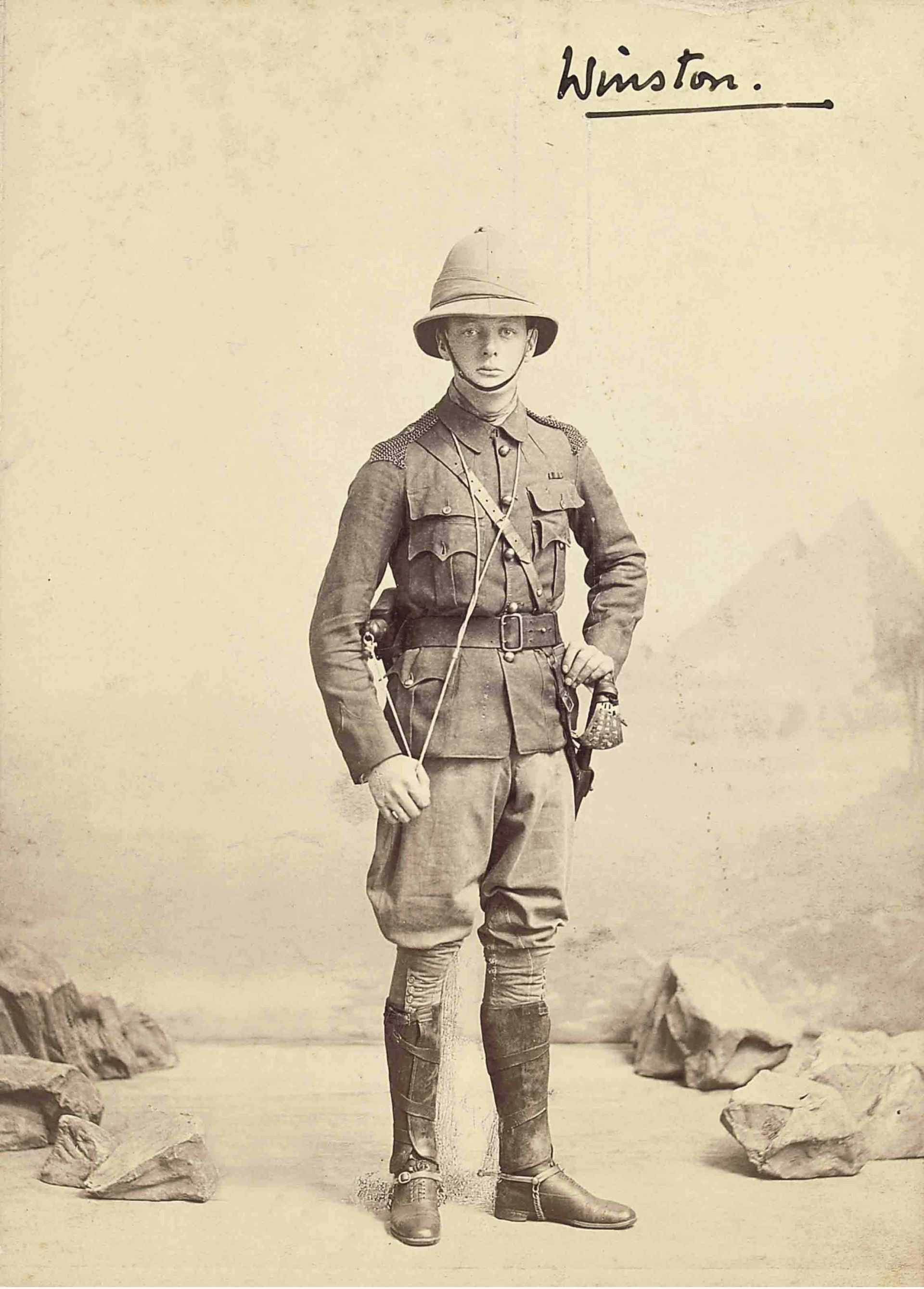 CHURCHILL, Winston S. (1874-1965). Cabinet photograph signed ('Winston' at upper margin), n.d. [1898], a studio portrait of Churchill in tropical uniform with pith helmet, spurs and sword before a backdrop depicting the pyramids, the image 192 x 125mm (200 x 132 with mount), by J. Heÿman & Co, 'Photographes de la Cour', Cairo, numbered '29104' on verso, some retouching around legs and feet. Provenance: Christie's South Kensington, 18 October 1990, lot 106. Churchill had, after great efforts, secured six months' leave from India in order to take part in the Sudanese campaign under Kitchener. The inscription with first name only is evidently to a close family member.